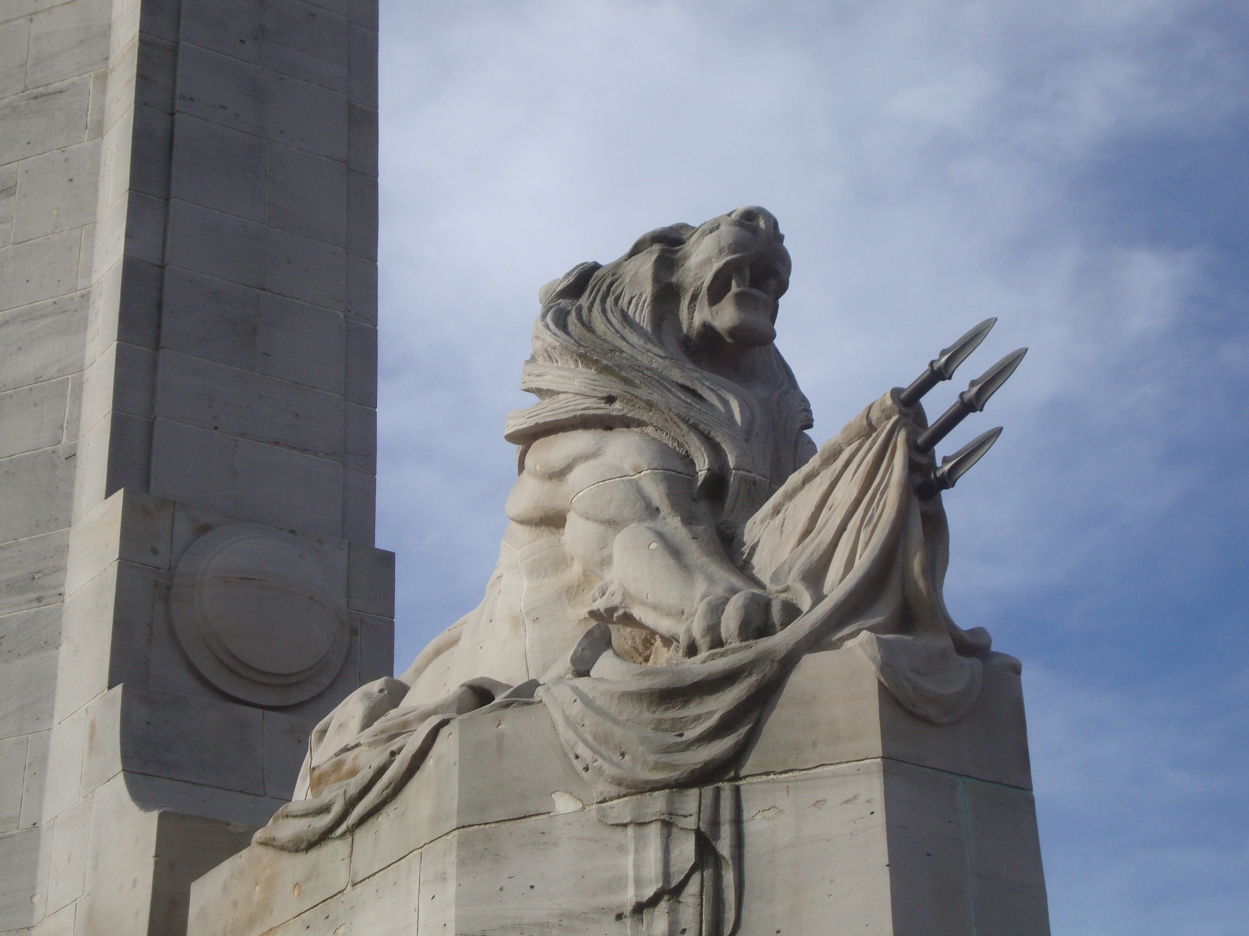 Bridge of Remembrance - carving of a lion.